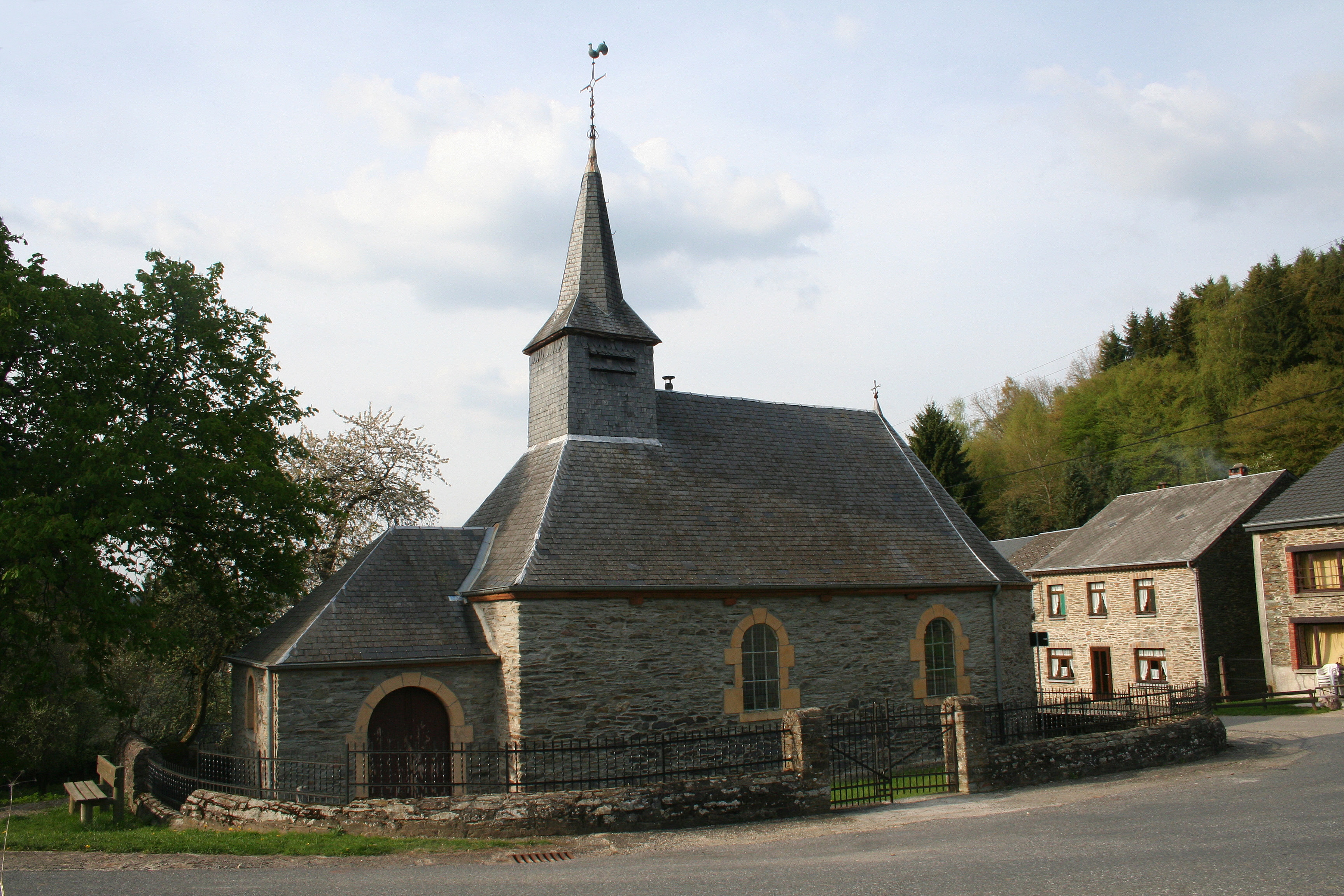 Cornimont (Belgium), the St. Monon chapel (1783).